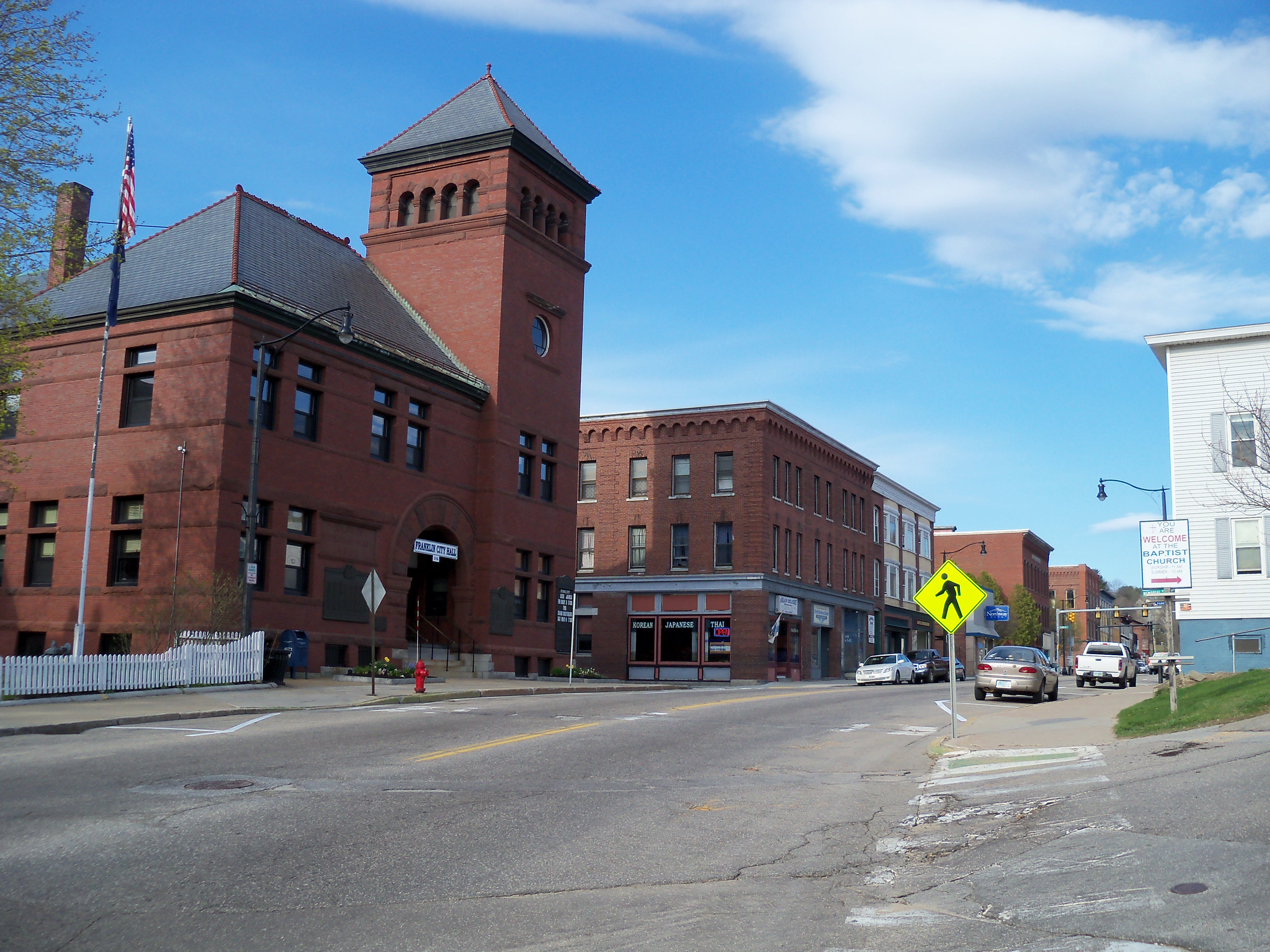 Downtown Franklin, New Hampshire, USA